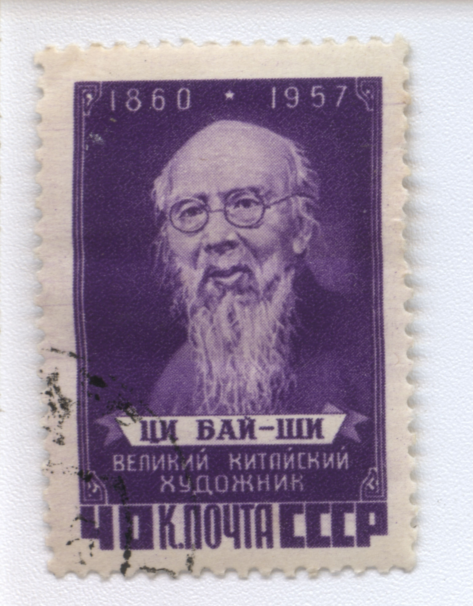 Chinese modern painter Qi Baishi’s portrait on the former USSR stamp, 1958, design by V. Zavyalov.